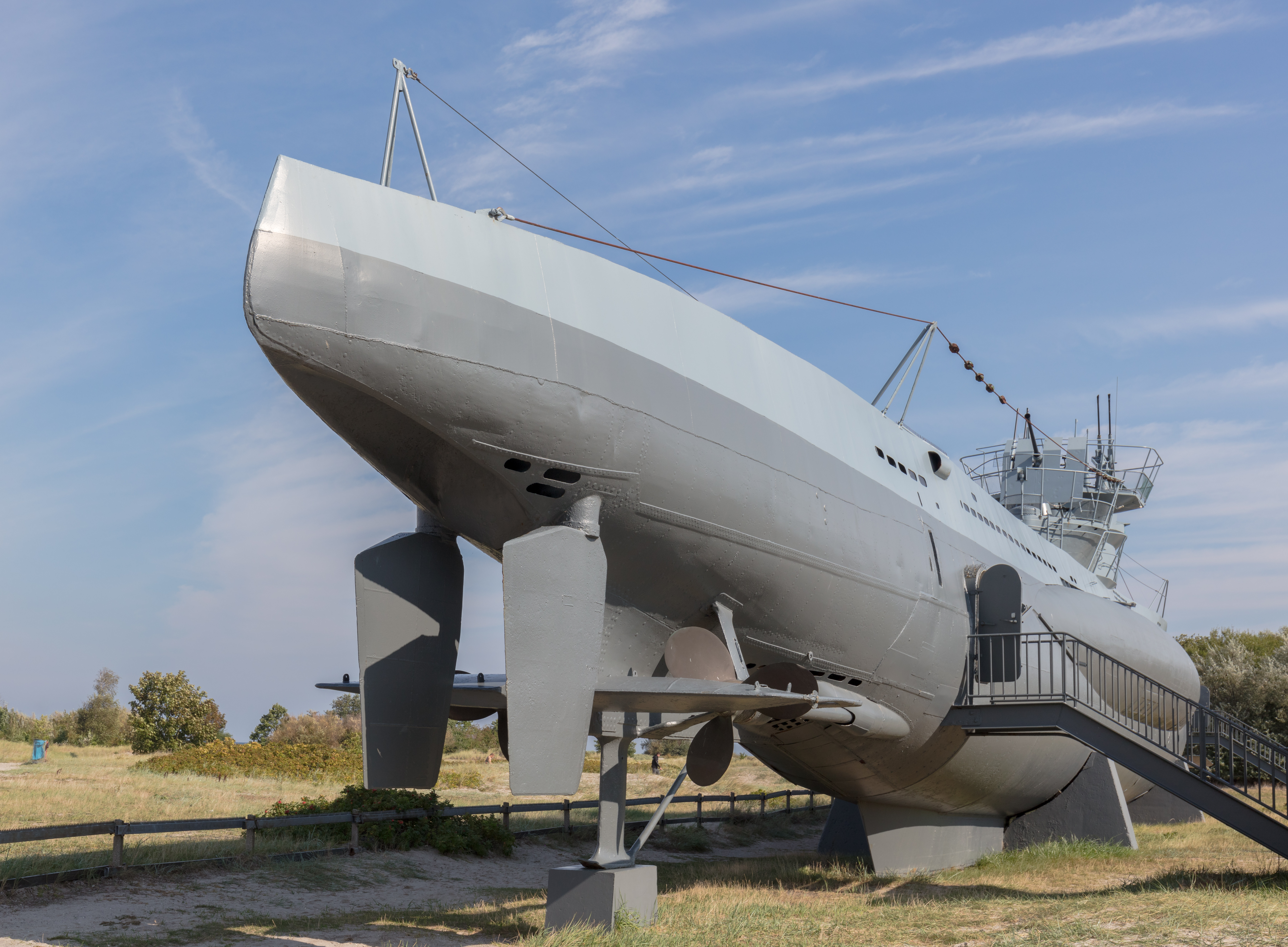 U995 Submarine, Kiel, Germany